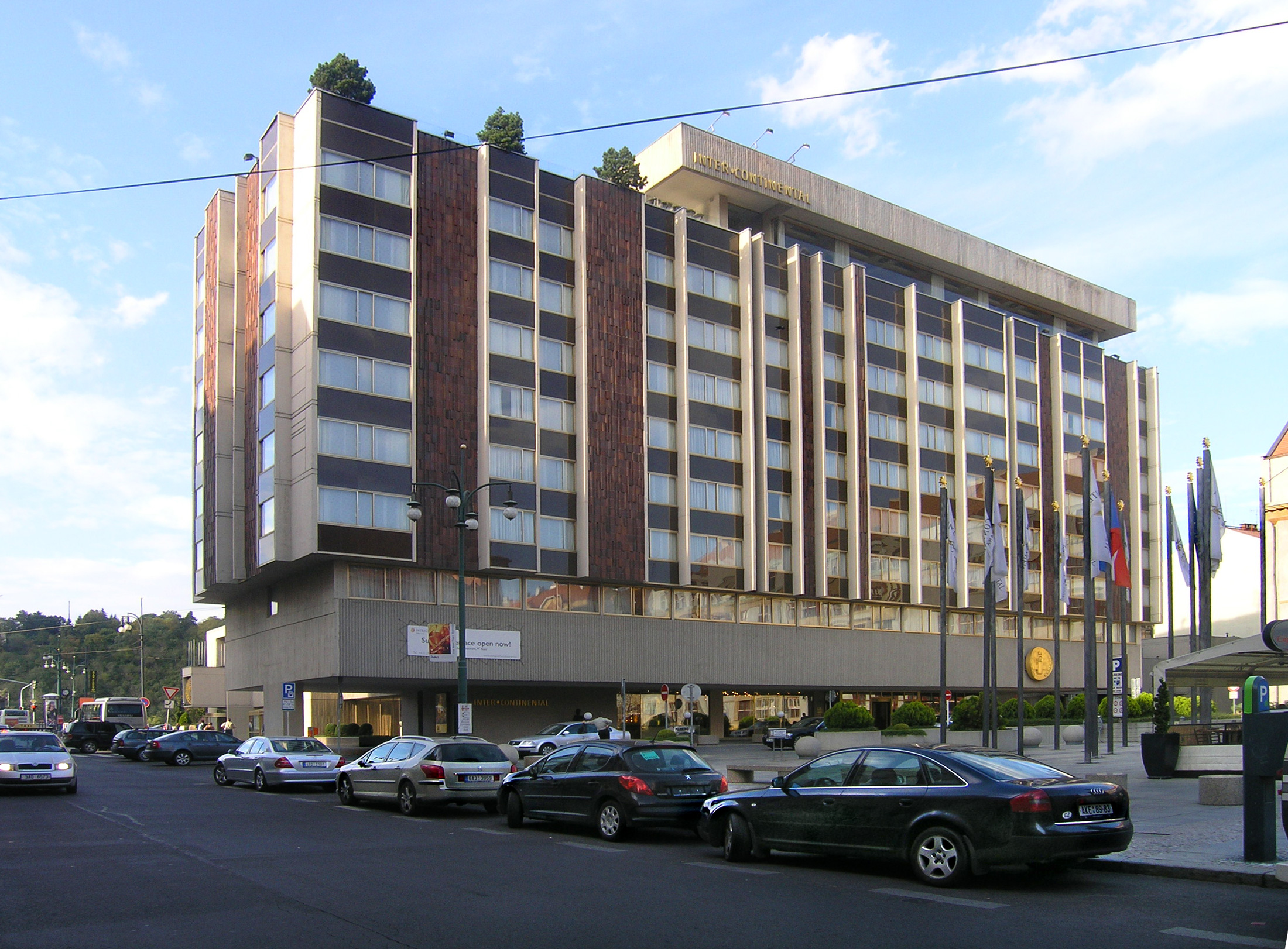 Hotel InterContinental at Curieových square in Old Town, Prague